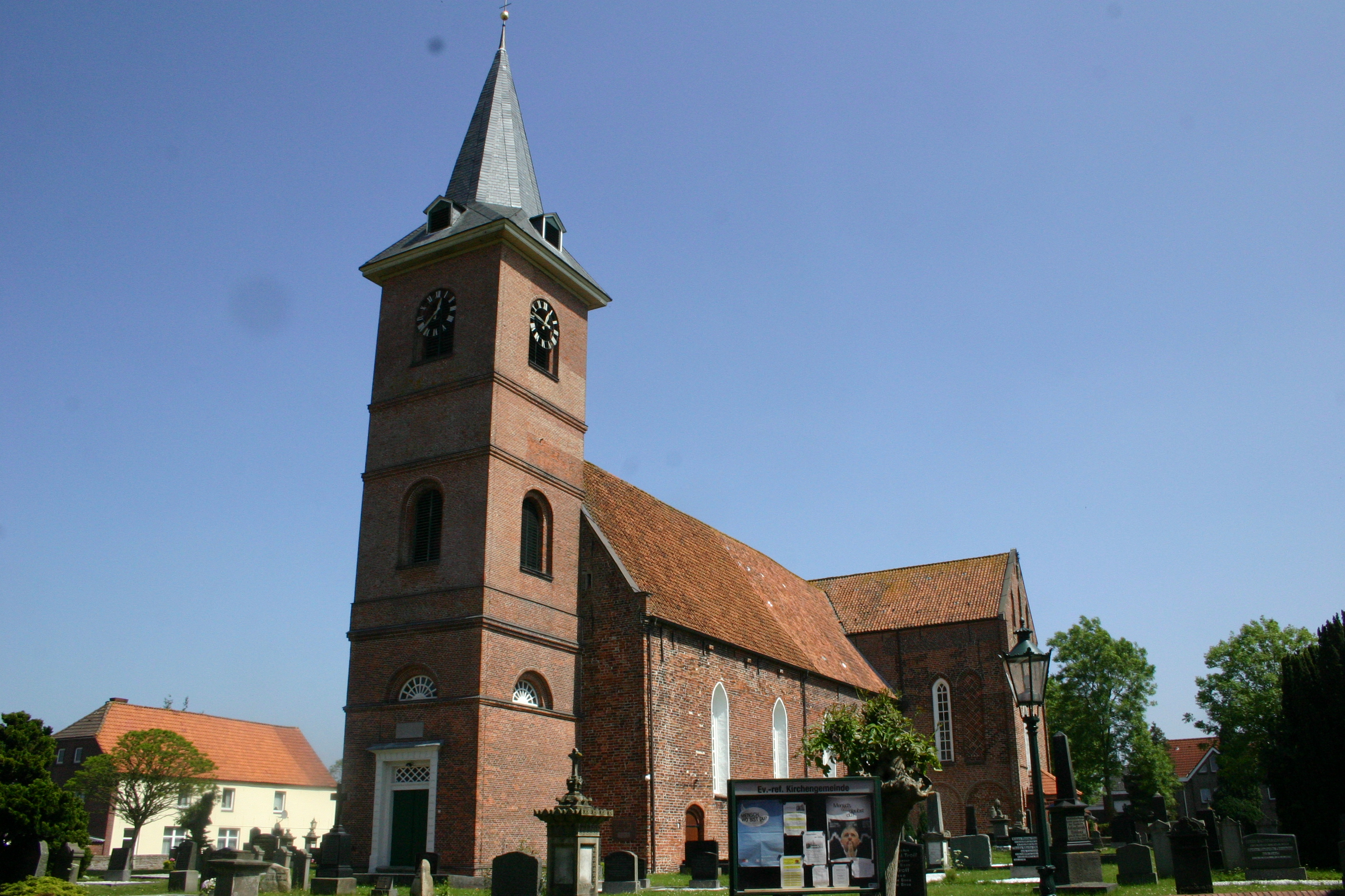 The Reformed Church in Bunde, district of Leer, East Frisia, Lower Saxony, Germany, is owned and used by a Reformed congregation within the Evangelical Reformed Church – Synod of Reformed Churches in Bavaria and Northwestern Germany.